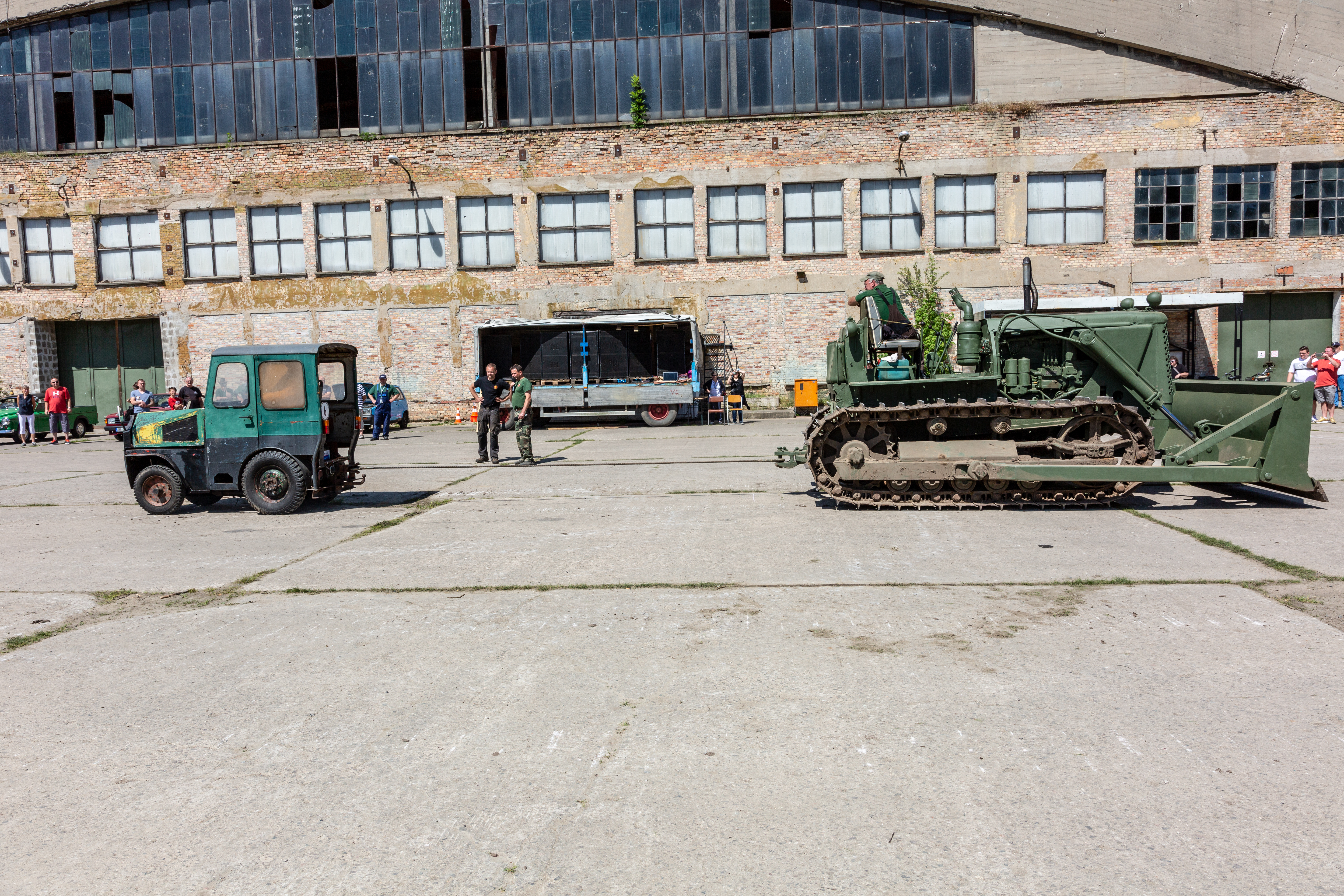 Pfingsttreffen Pütnitz 2018